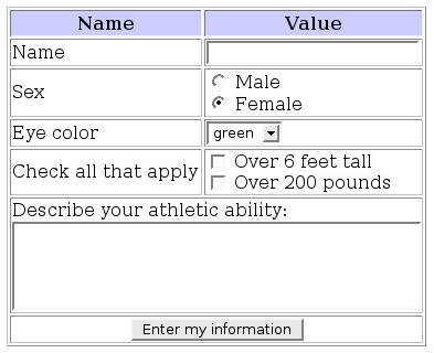 A sample form in HTML and generated with Mozilla Firefox. This form shows a combined sample of (in order from top to bottom): a text box a pair of radio buttons a select box a pair of check boxes a text area a submit button Contents 1 HTML 2 Image Licensing 3 Licensing 4 Original upload log HTML The following is the HTML used to create this form: Name Value Name Sex Male Female Eye color blue brown green other Check all that apply Over 6 feet tall Over 200 pounds Describe your athletic ability: Image Licensing This picture/image was taken/created by me. See my User:Cburnett page for attribution or for other licenses.